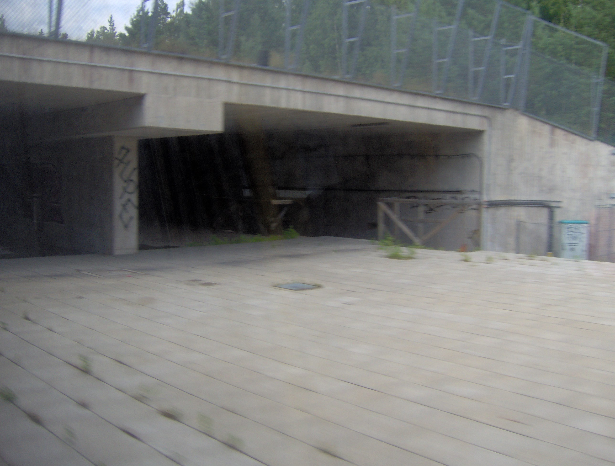 The never finished Stockholm metro station Kymlinge. The picture was taken from inside a passing metro carriage.